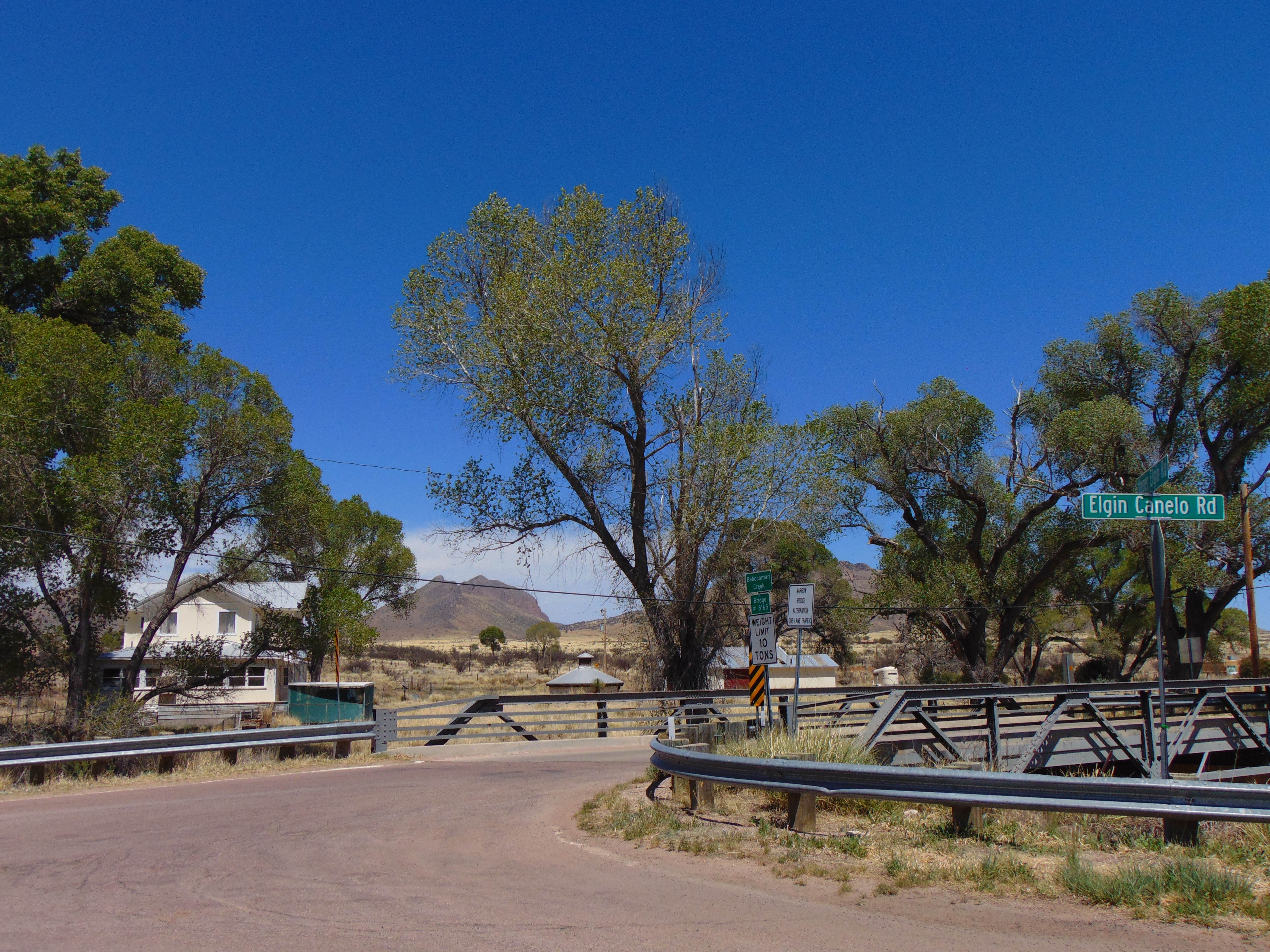 Elgin, Arizona in 2016, from across Babocomari Creek near the old church. Historic section house, water tank and pumphouse in center/left. The railroad depot would have been just to the right of the pumphouse at center, but has since been demolished.